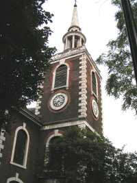 personal photo